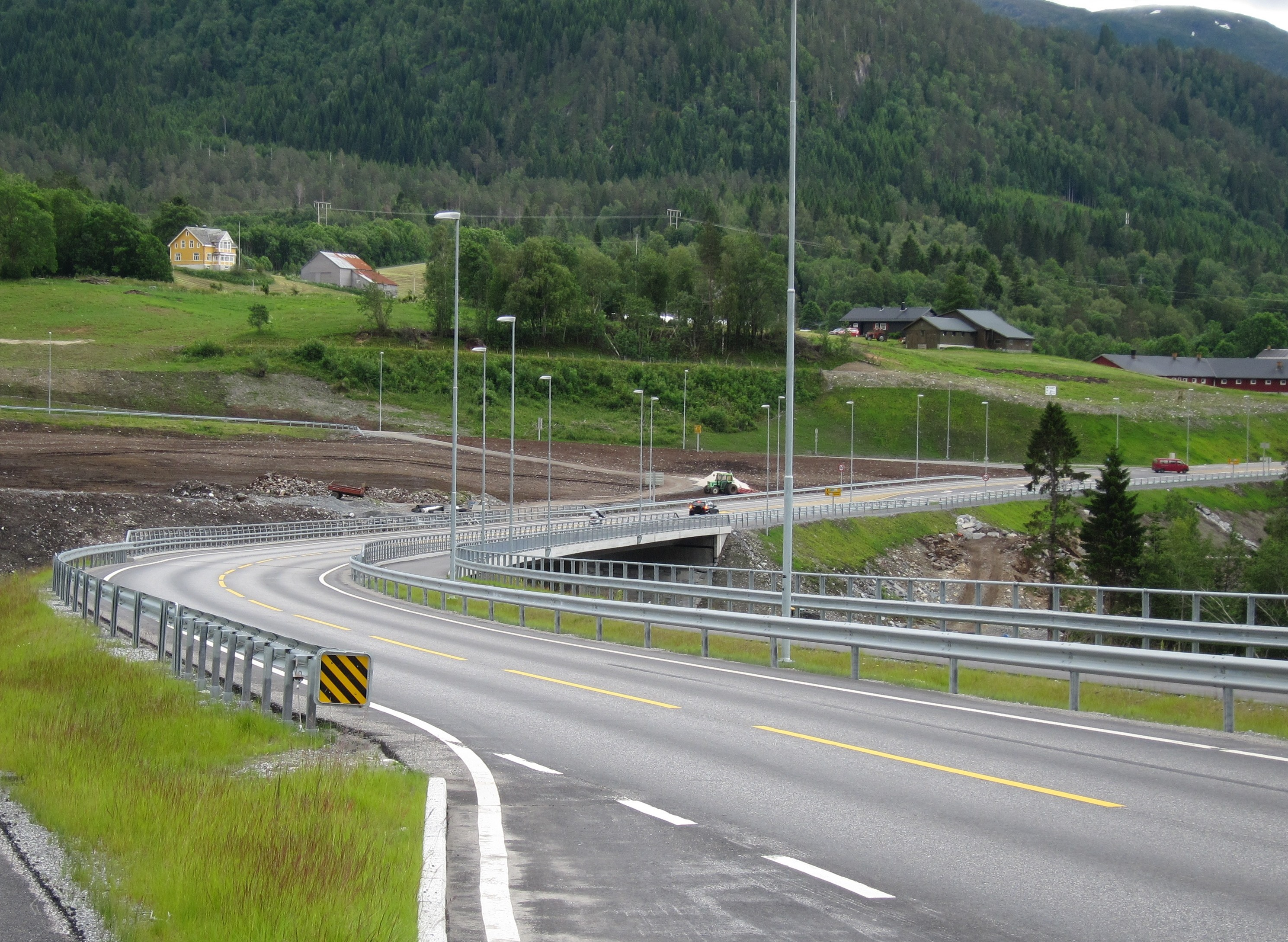 Storelva bridge road E39, junction with county road 60, Hornindal, Norway